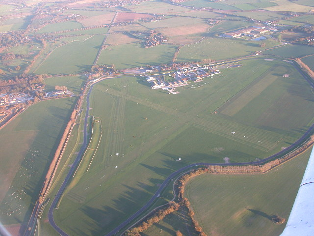 Goodwood Airfield. Aerial shot showing airfield and motor circuit around perimeter